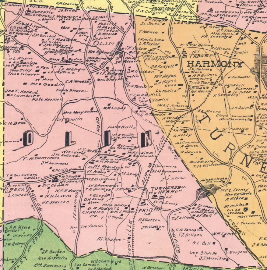 created from original map from 1917 by N.R. Kinney; Printed in color, mounted on linen. Townships designated by color. Map shows school districts, mills, churches, retail stores, rural mail routes, African American churches, townships, landowners, schools, African American schools, dairies, tenants, and railroads including the Southern Railway and the "Proposed Statesville Air Line Railway." Townships shown include New Hope, Union Grove, Eagle Mills, Sharpsburg, Olin, Turnersburg, Concord, Bethany, Cool Springs, Shiloh, Statesville, Chambersburg, Fallstown, Barringers, Davidson, and Coddle Creek.